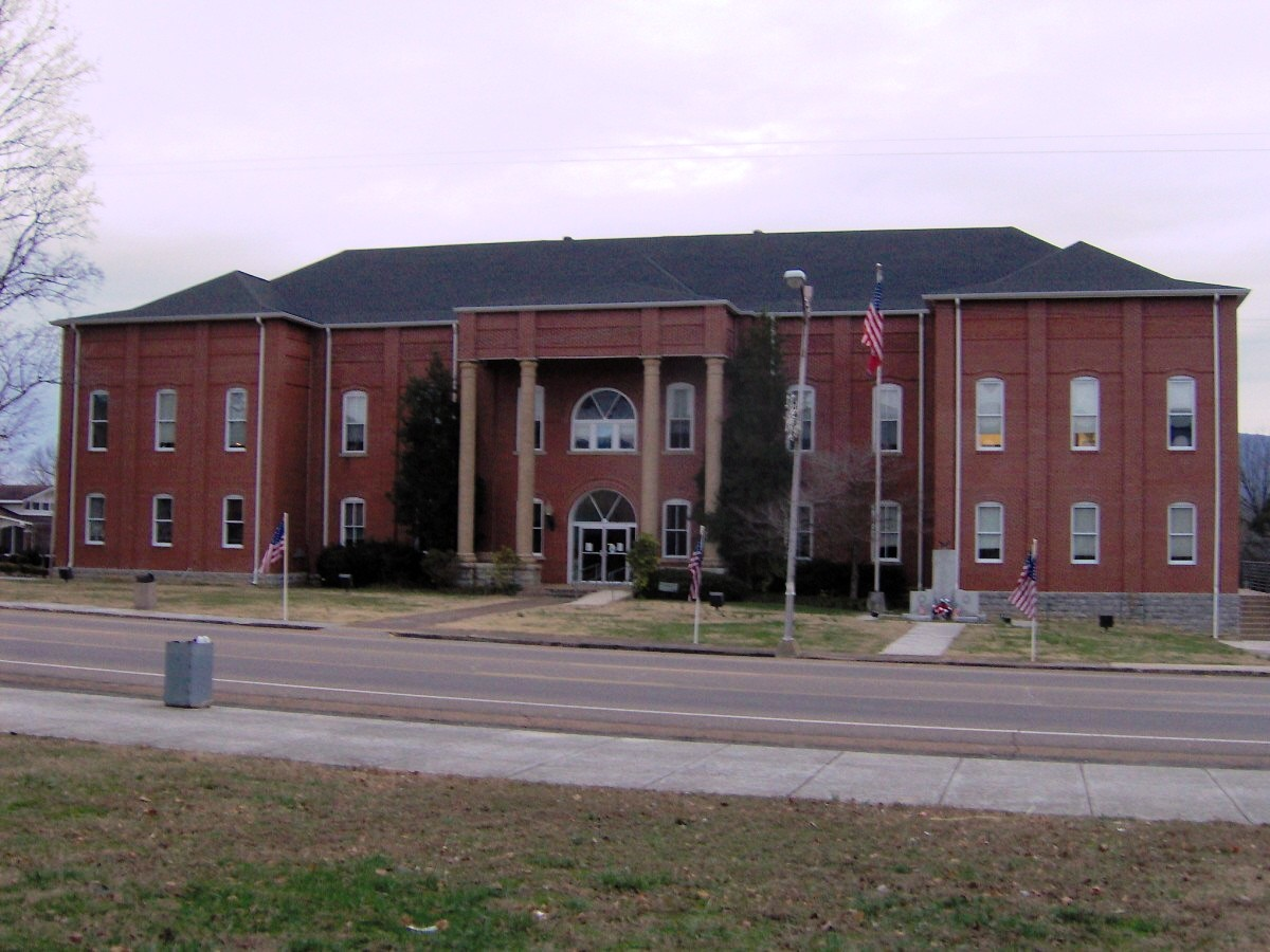 Bledsoe County Courthouse in Pikeville, Tennessee, located in the Southeastern United States.